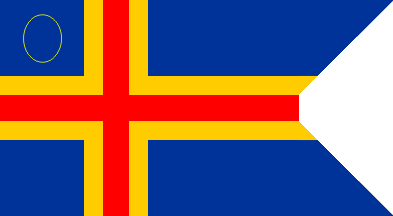 Flag of Åland Islands Yachting Club Ensign